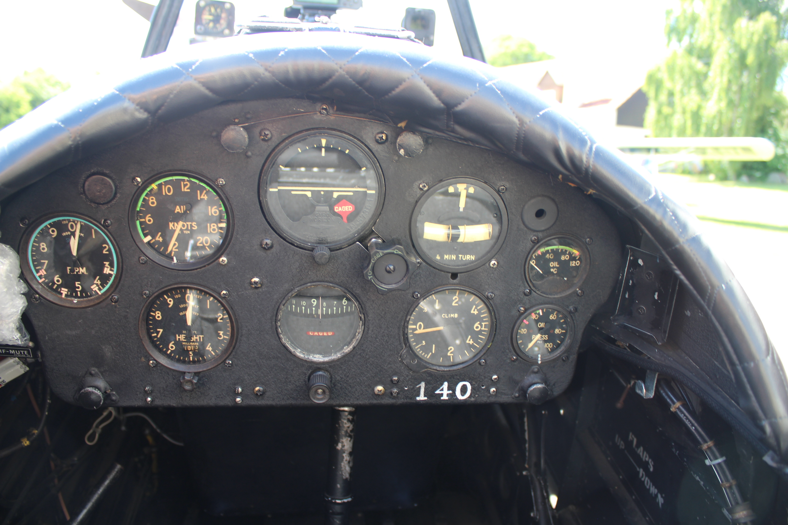 DHC-1 'Chipmunk' rear set - Instructor/passenger